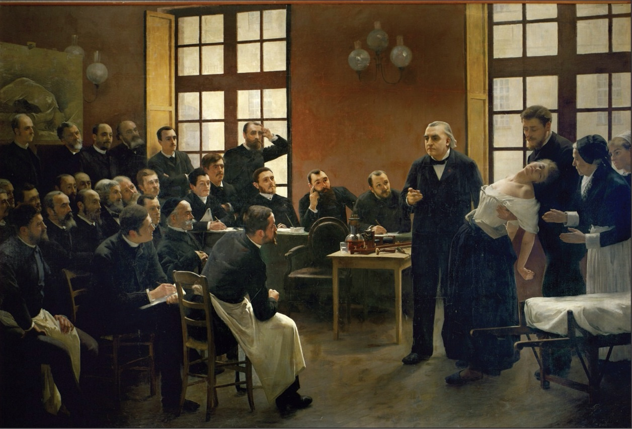 Professor Jean-Martin Charcot teaching at the Salpêtrière in Paris, France: showing his students a woman ("Blanche" (Marie) Wittman) in a trance or shock.